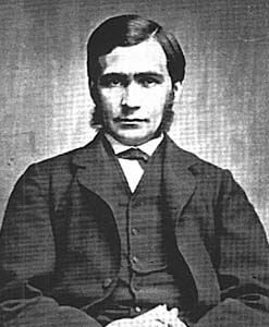 Photo of Thomas Hill Green.